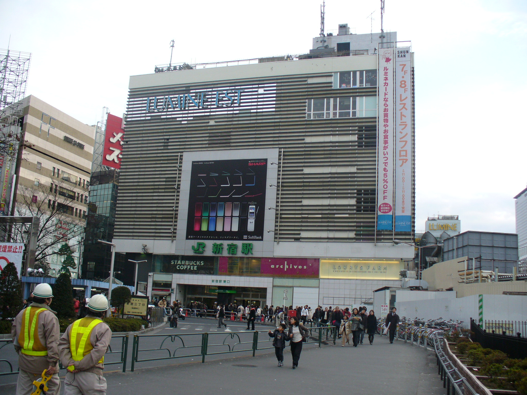 East exit of Shinjuku Station